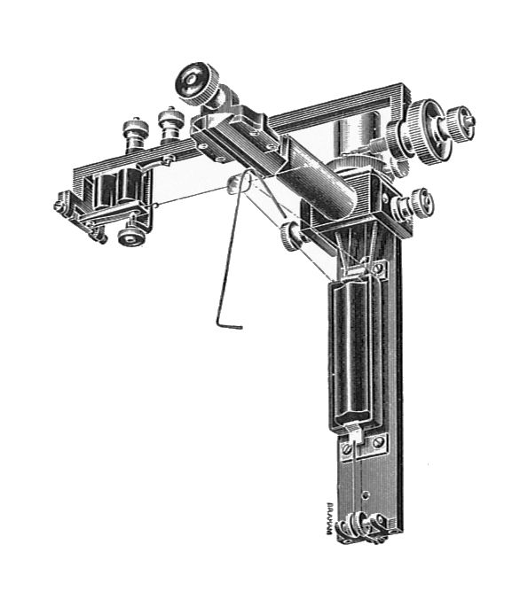 Fig. 104 Mechanism of Muirhead's Syphon recorder